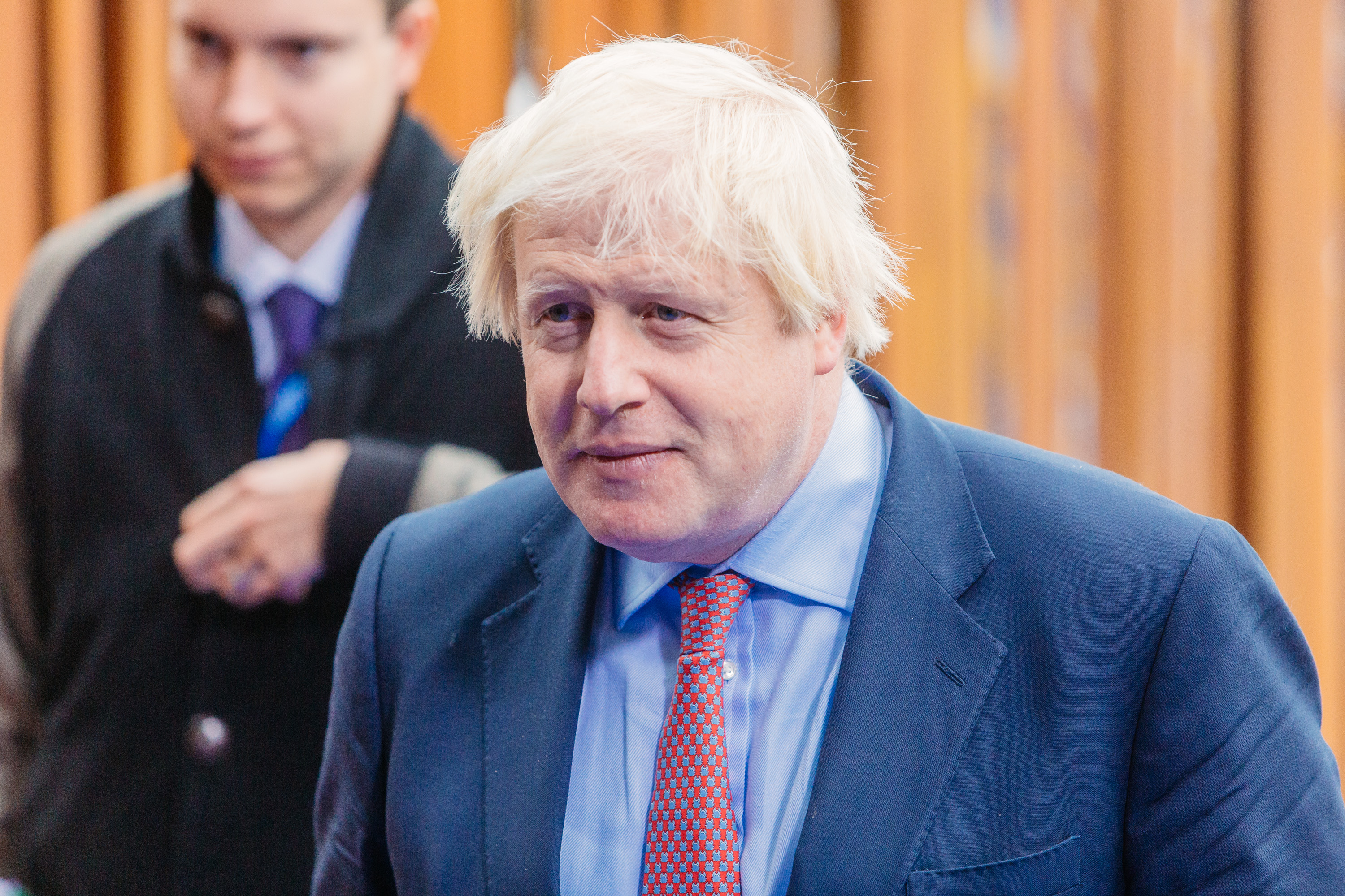 Boris Johnson, Secretary of State for Foreign and Commonwealth Affairs, Foreign & Commonwealth Office, United Kingdom Photo: Arno Mikkor (EU2017EE)